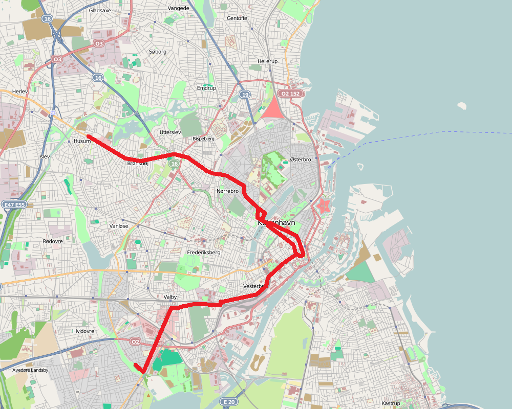 Map of Copenhagen with hurtigbus (fast bus) lines 81 and 82 as of 1959 in red.